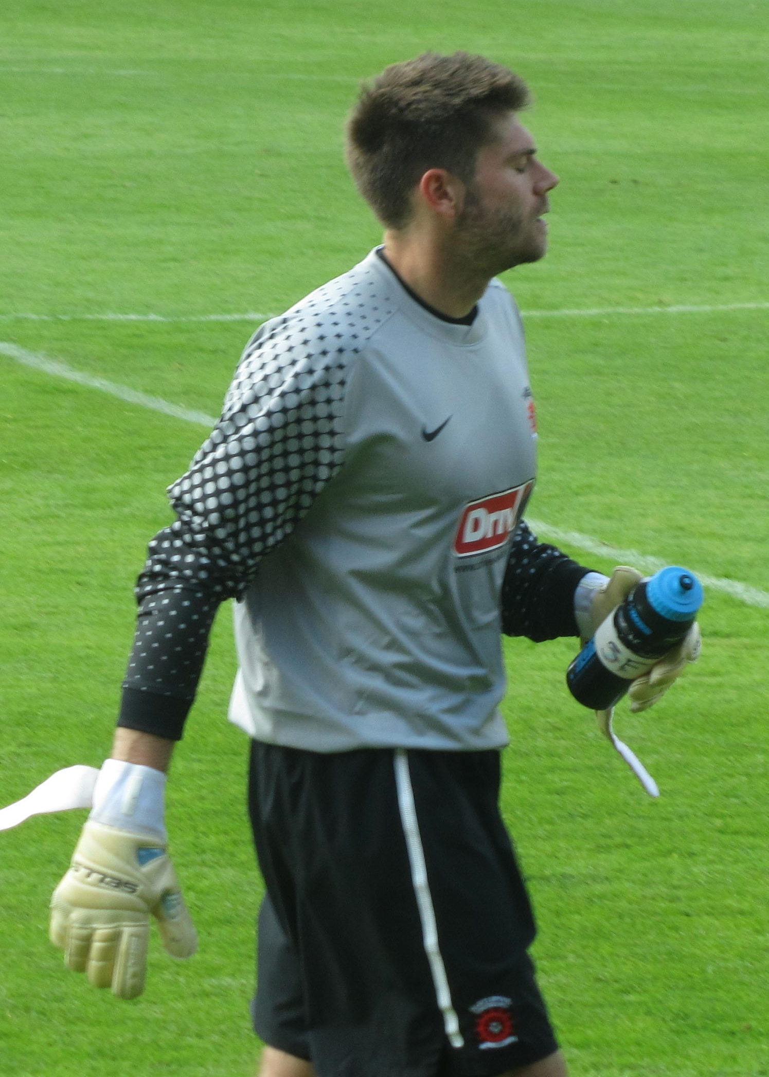 Scott Flinders playing for Hartlepool United against York City at Bootham Crescent, York on 30 July 2011